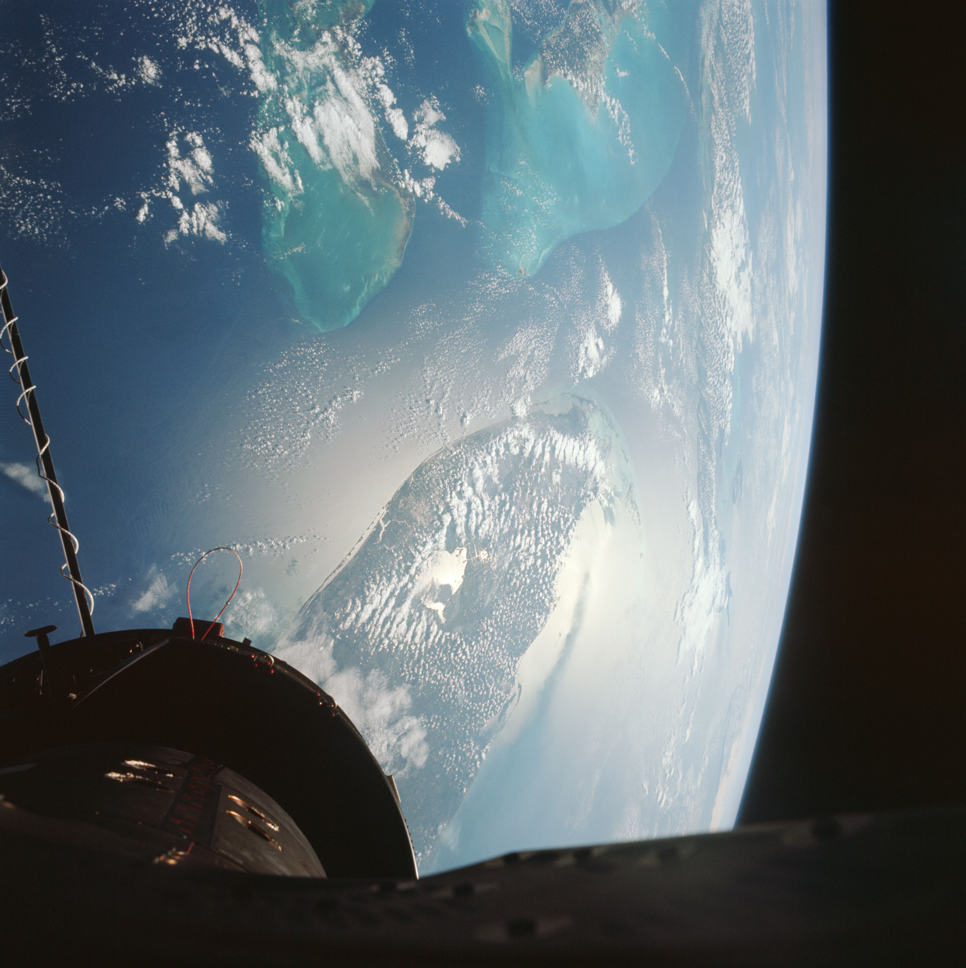 S66-63418 (12 Nov. 1966) --- Florida (south half), Bahamas Islands (Andros-Grand Bahamas-Bimini), and Cuba, looking south as seen from Gemini-12 spacecraft on its 15th revolution of Earth.